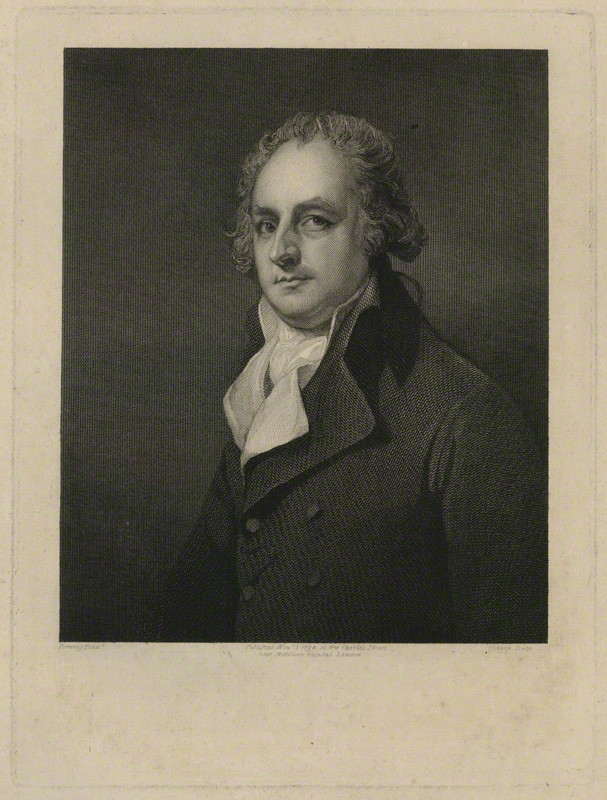 Portrait of Thomas Walker (1749–1817), English merchant and political radical.